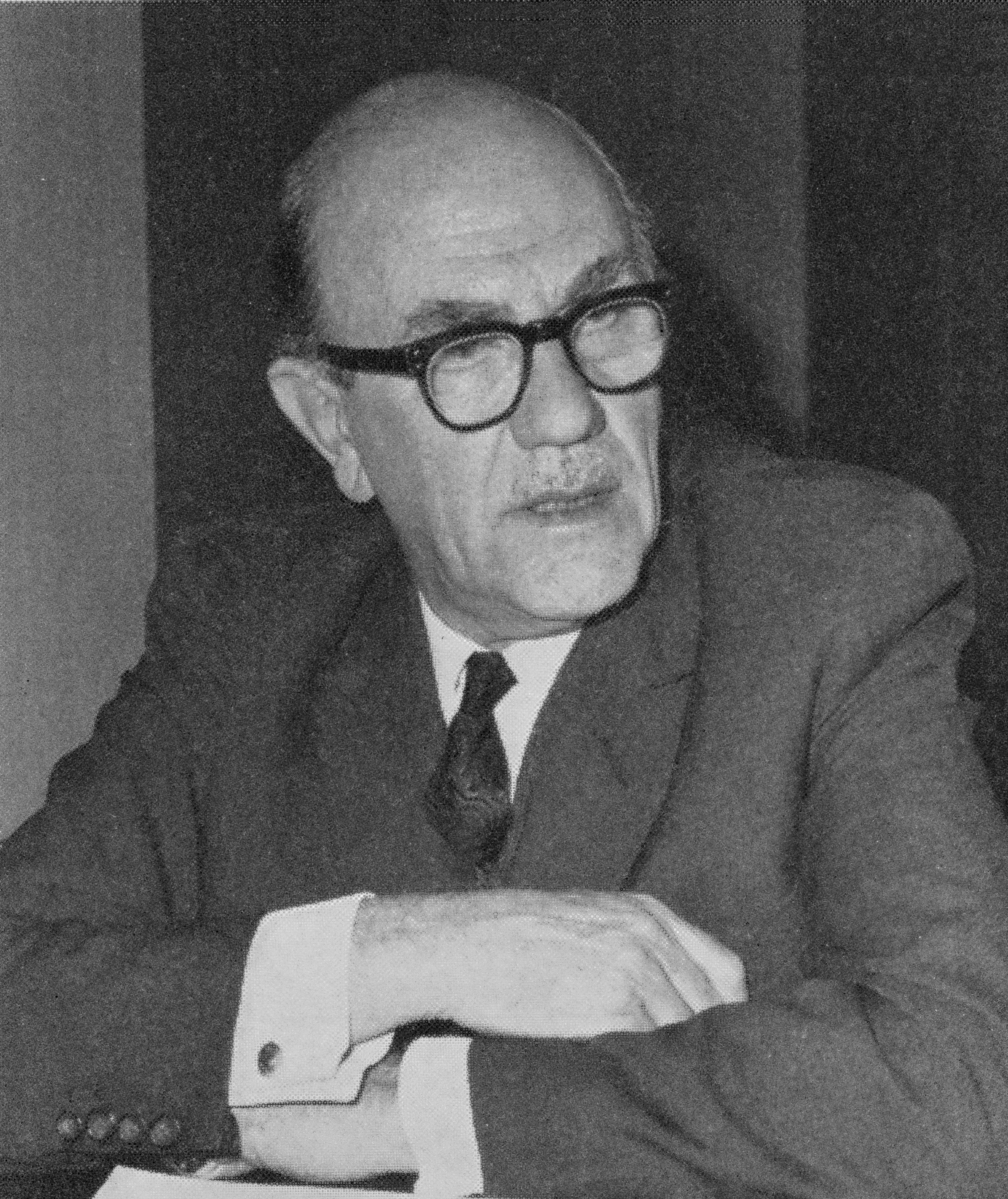 Photograph from an interview with Sir Michael Perrin in Foundation News, house journal of the Wellcome Foundation Ltd. Article title: "The Chairman Looks Back on 18 Years". On the eve of retirement.